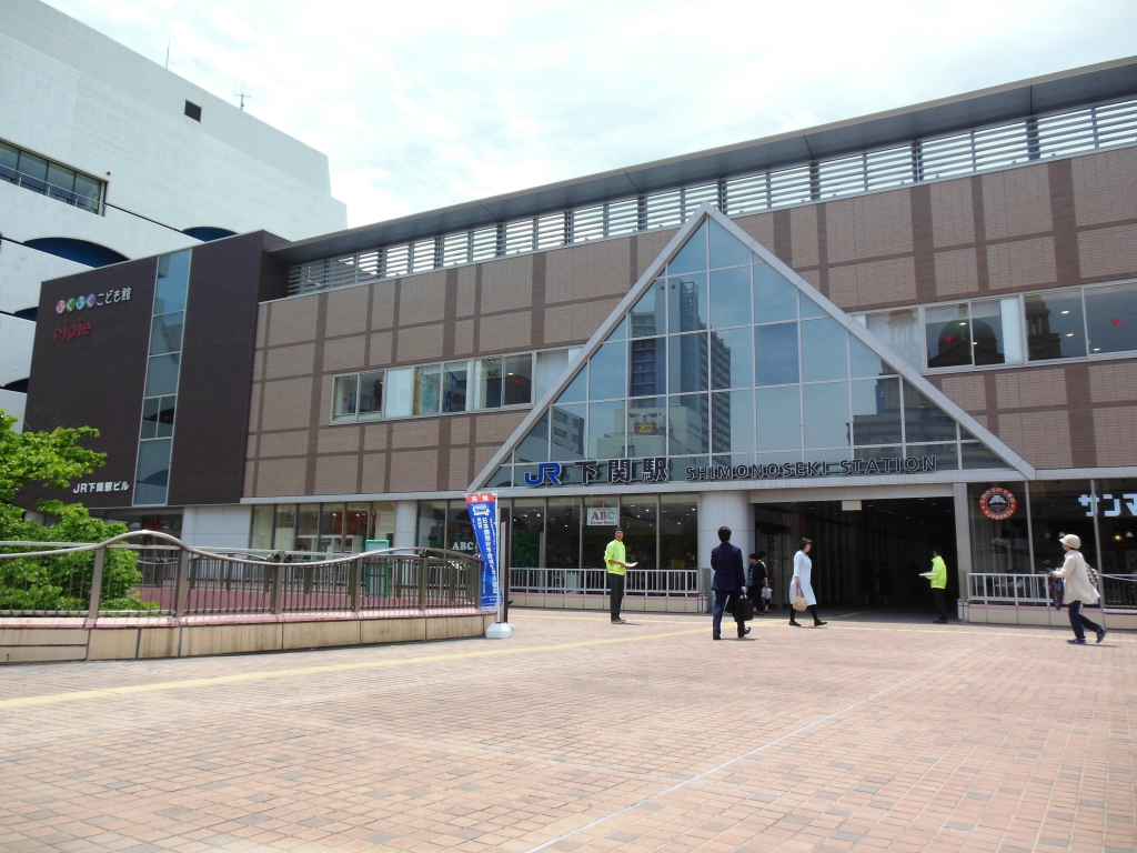 Shimonoseki Station entrance, Japan